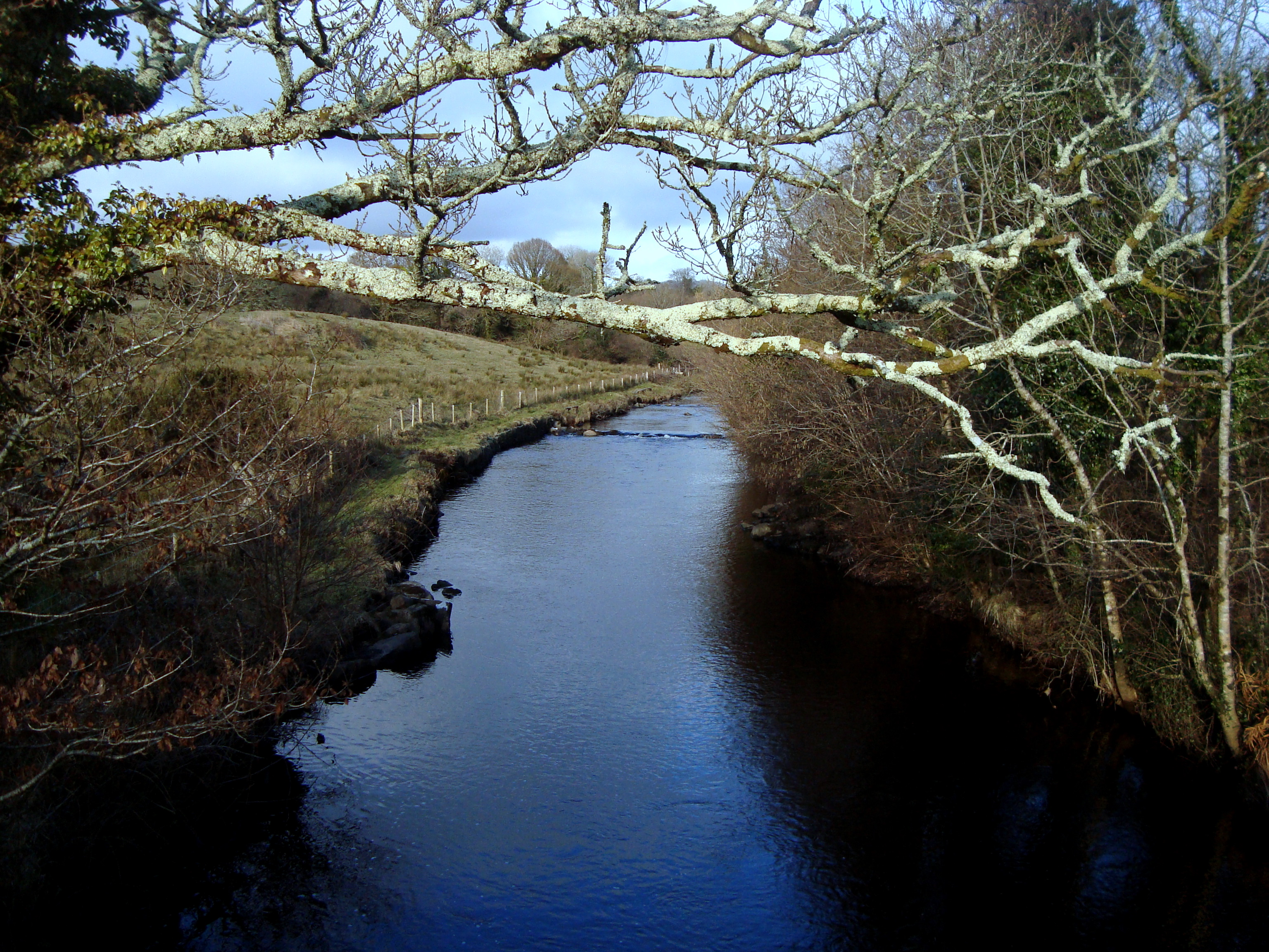 Eske River from Kitty's Bridge Looking north west and upstream.